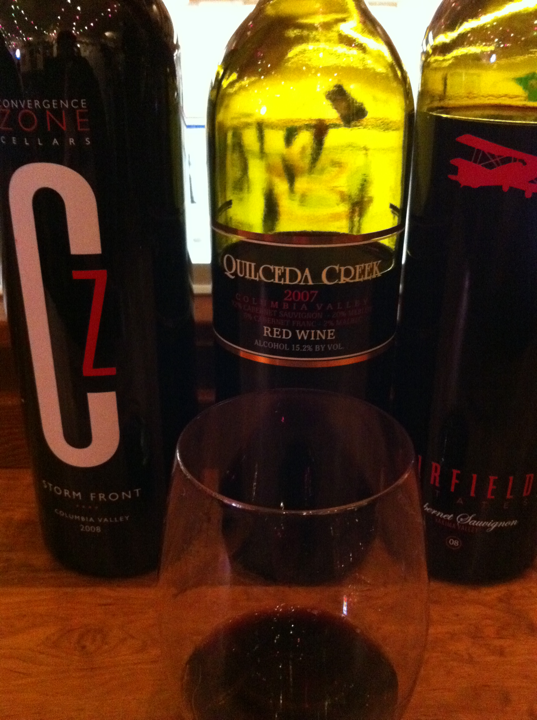 A glass of Quilceda Creek Red wine from the Columbia Valley AVA along with two other Washington wine from the same AVA--Convergence Zone Cellars Storm Front and Airfield Cabernet Sauvignon.